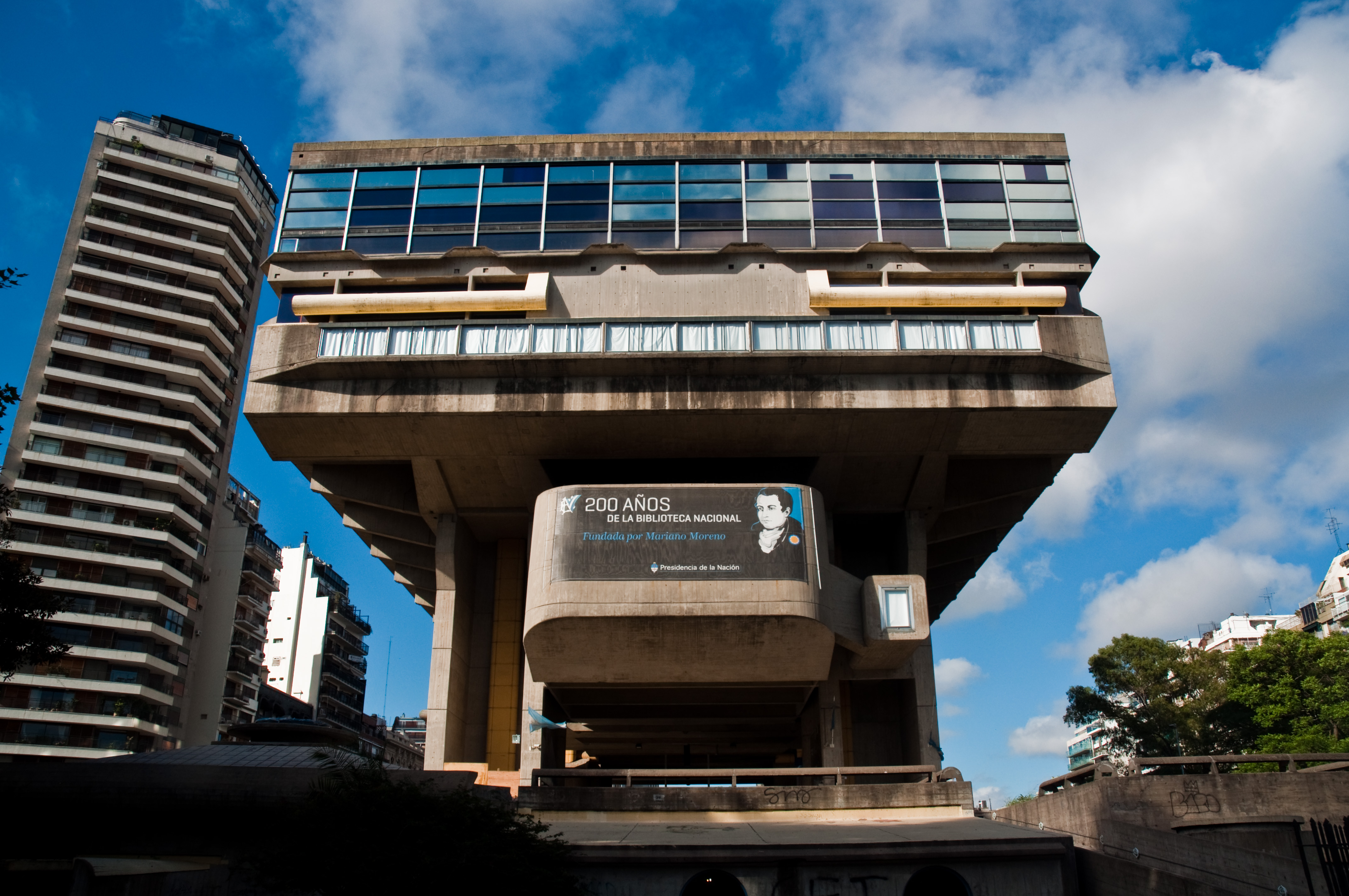 National Library, Buenos Aires, Argentina, 30th. Dec. 2010